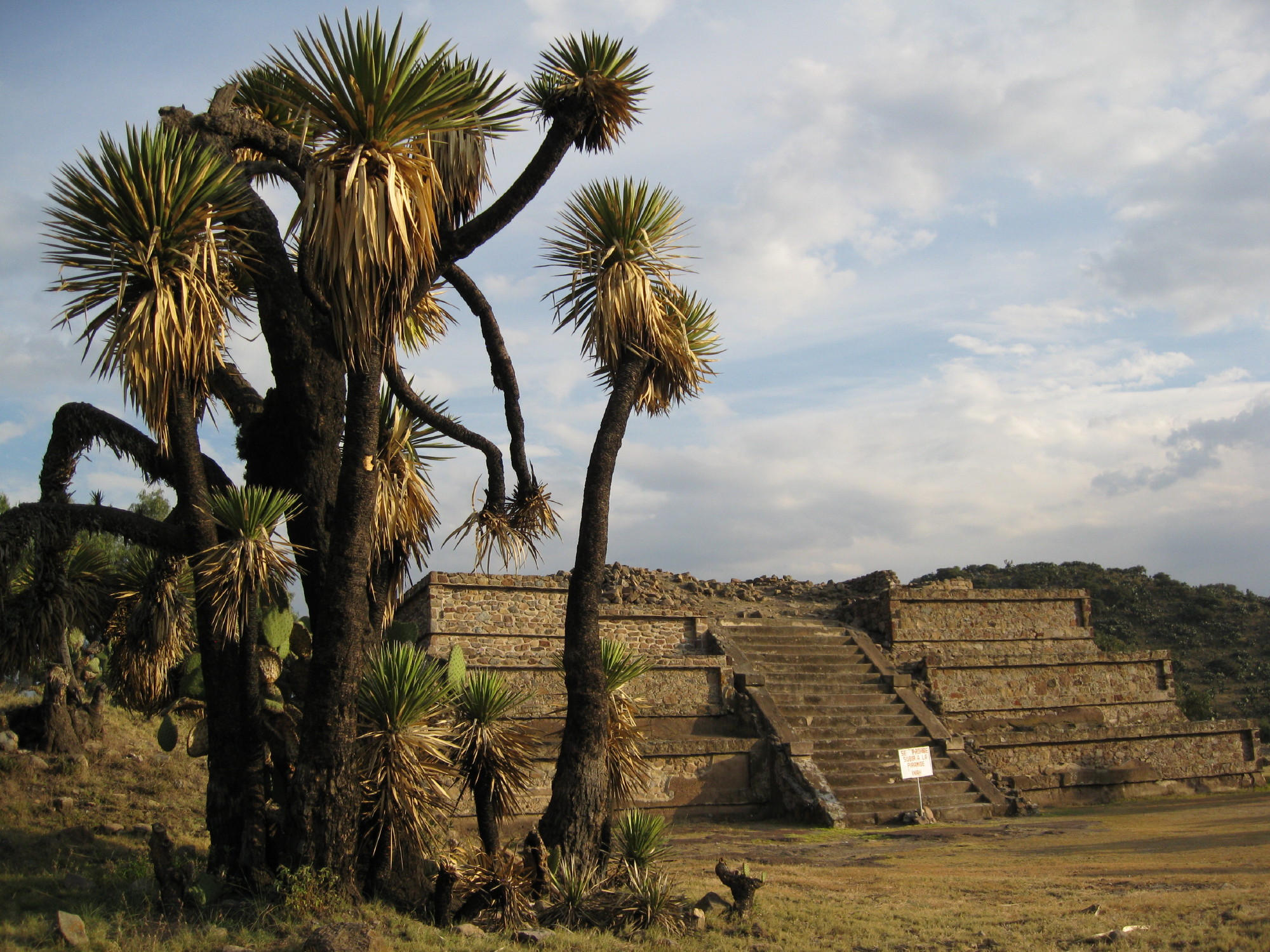 piramide of Xihuingo